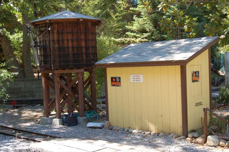 Billy Jones Wildcat Railroad